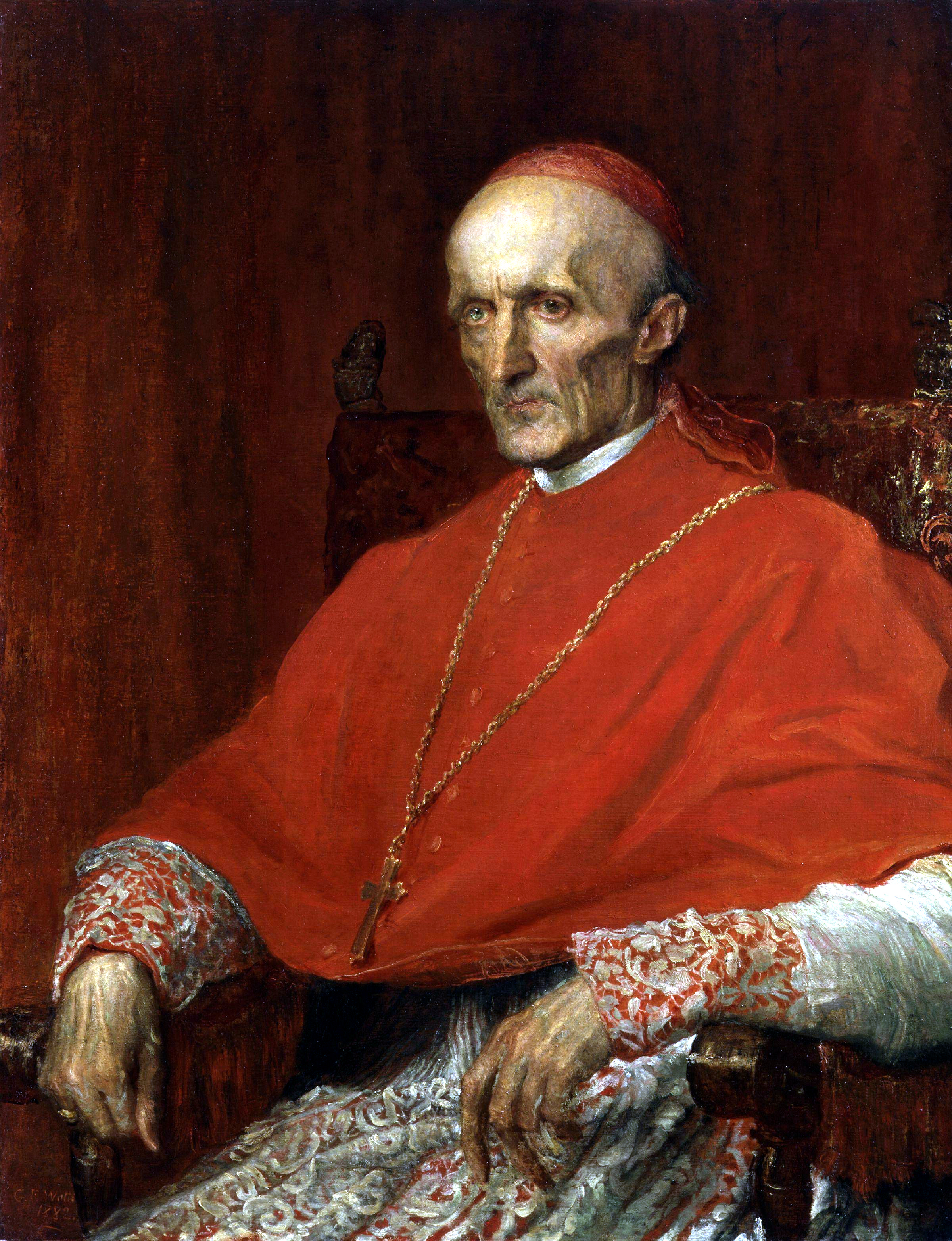 Portrait of Henry Edward Manning (1808-1892)